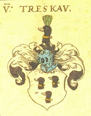 Coats of arms of von Treskow family